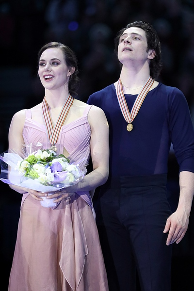 Tessa Virtue and Scott Moir at the 2017 World Championships